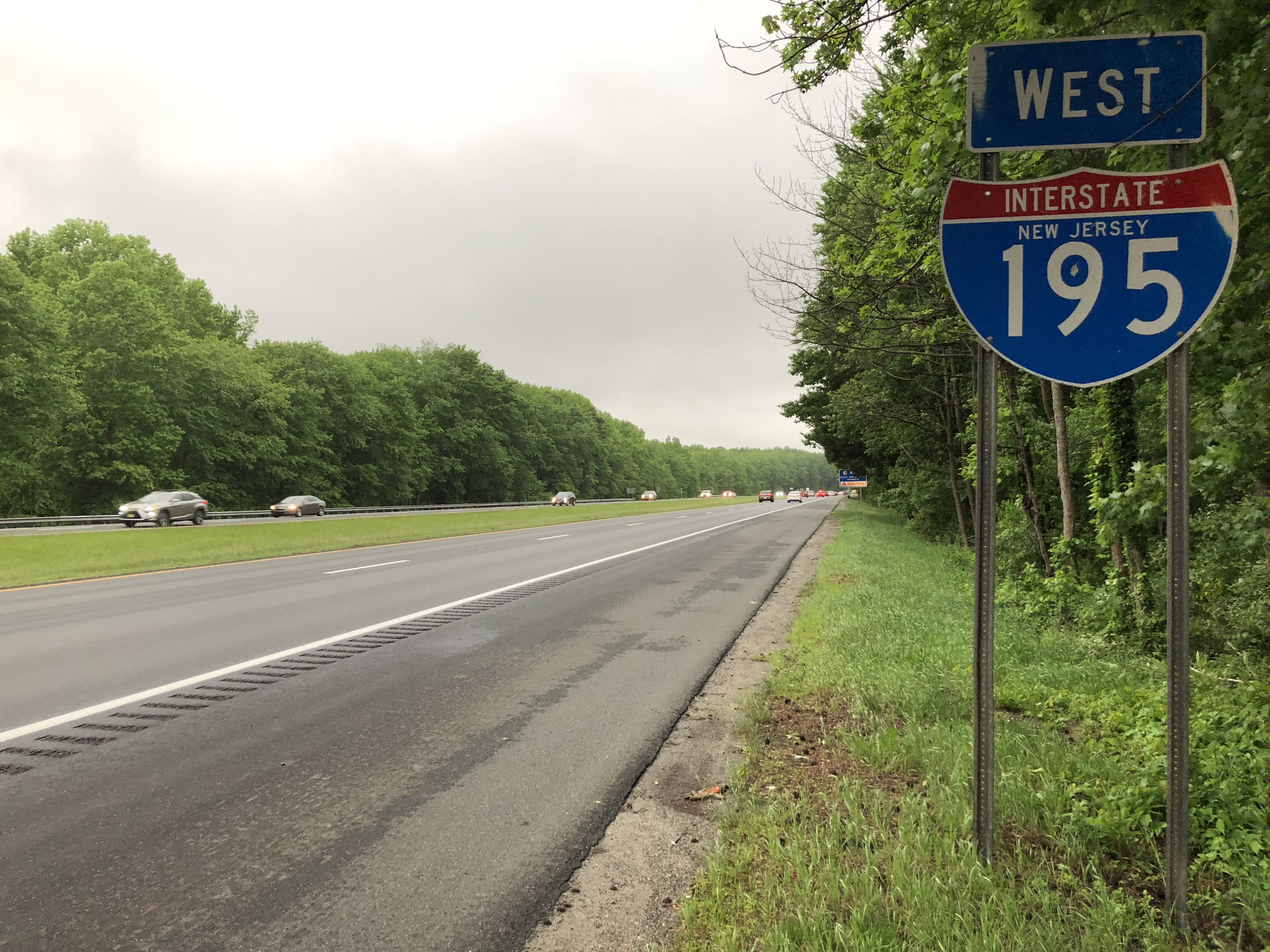 View west along Interstate 195 (Central Jersey Expressway) just west of Exit 16 in Millstone Township, Monmouth County, New Jersey